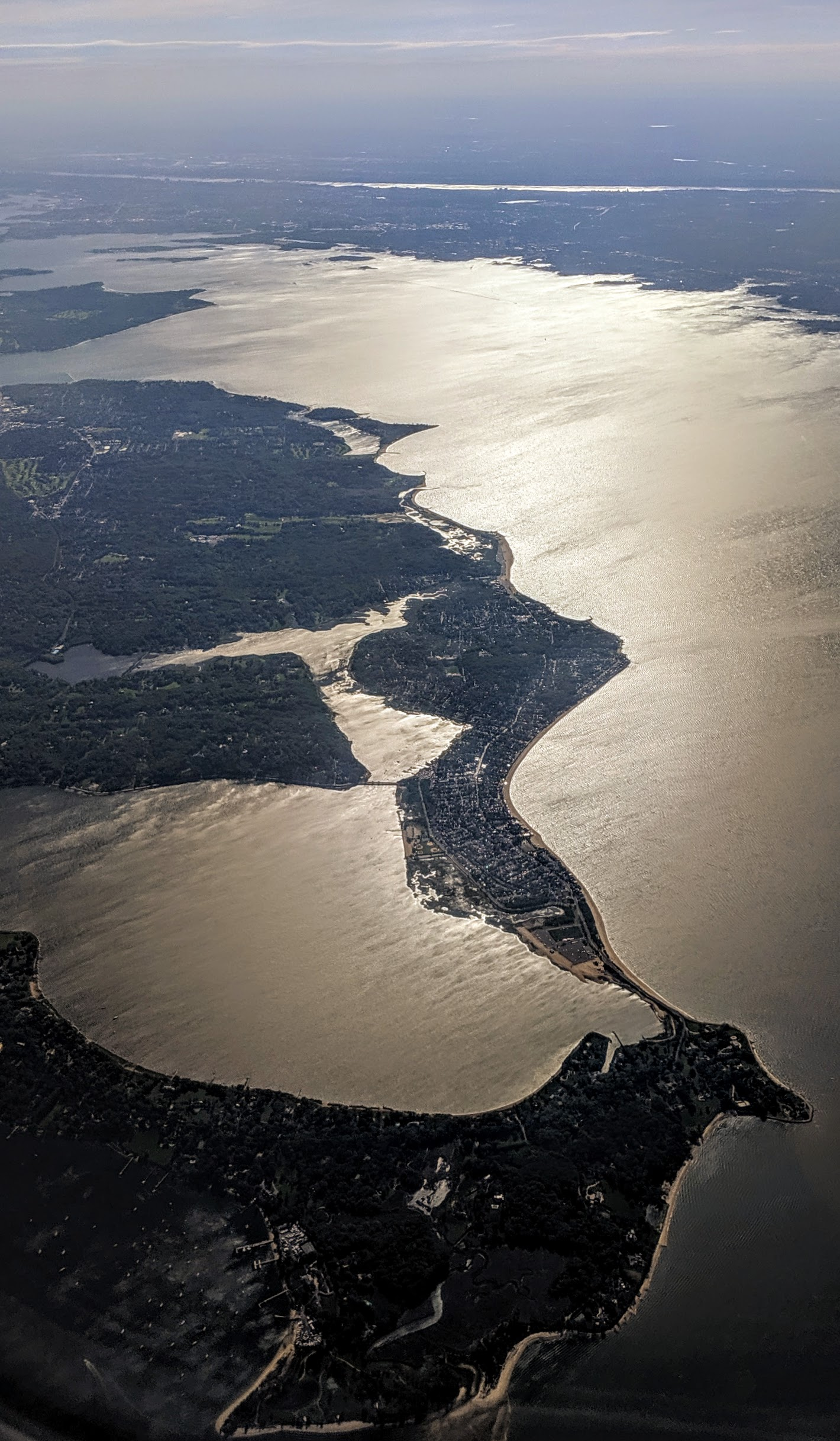 Aerial view from the east of Oyster Bay National Wildlife Refuge, which includes part of Oyster bay (bottom right), most of West Harbor (near left) and Mill Neck Creek (beyond the bridge) and the wetlands behind Fox Point (just beyond). The larger body of water is Long Island Sound.